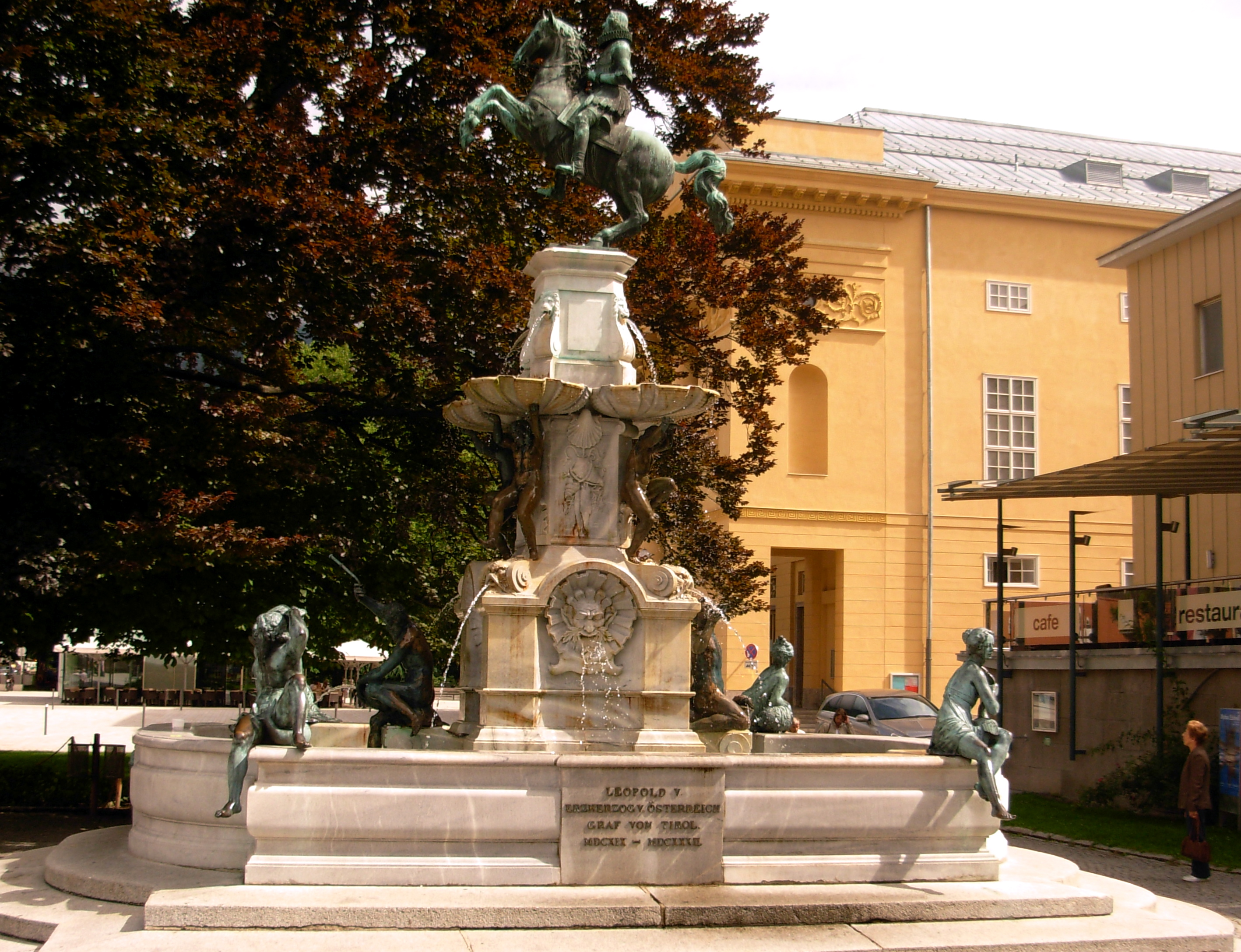 Leopold V, Graf von Tirol, Archduke of Austria (statue in Innsbruck)